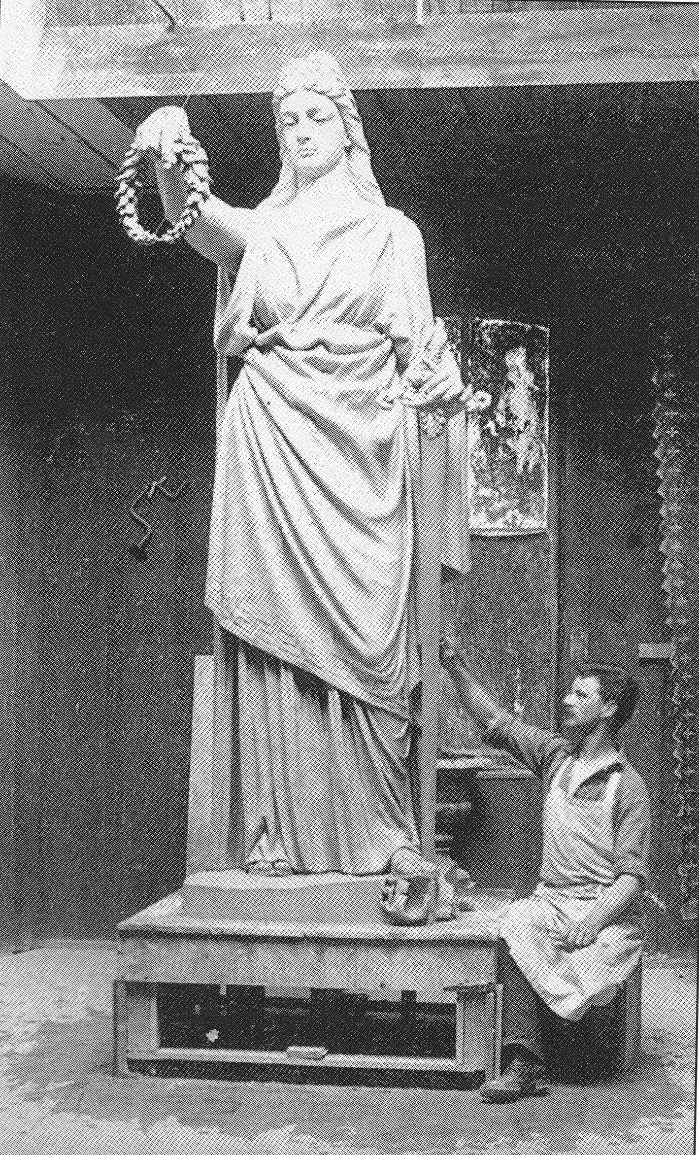 Pottsville Statue being sculpted (1890) - August Zeller, sculptor. A large granite bronze memorial with 4 standing soldiers near the base of a tall column which is topped with a large standing female figure, "Genius of Liberty" Garfield Square, Pottsville, PA.